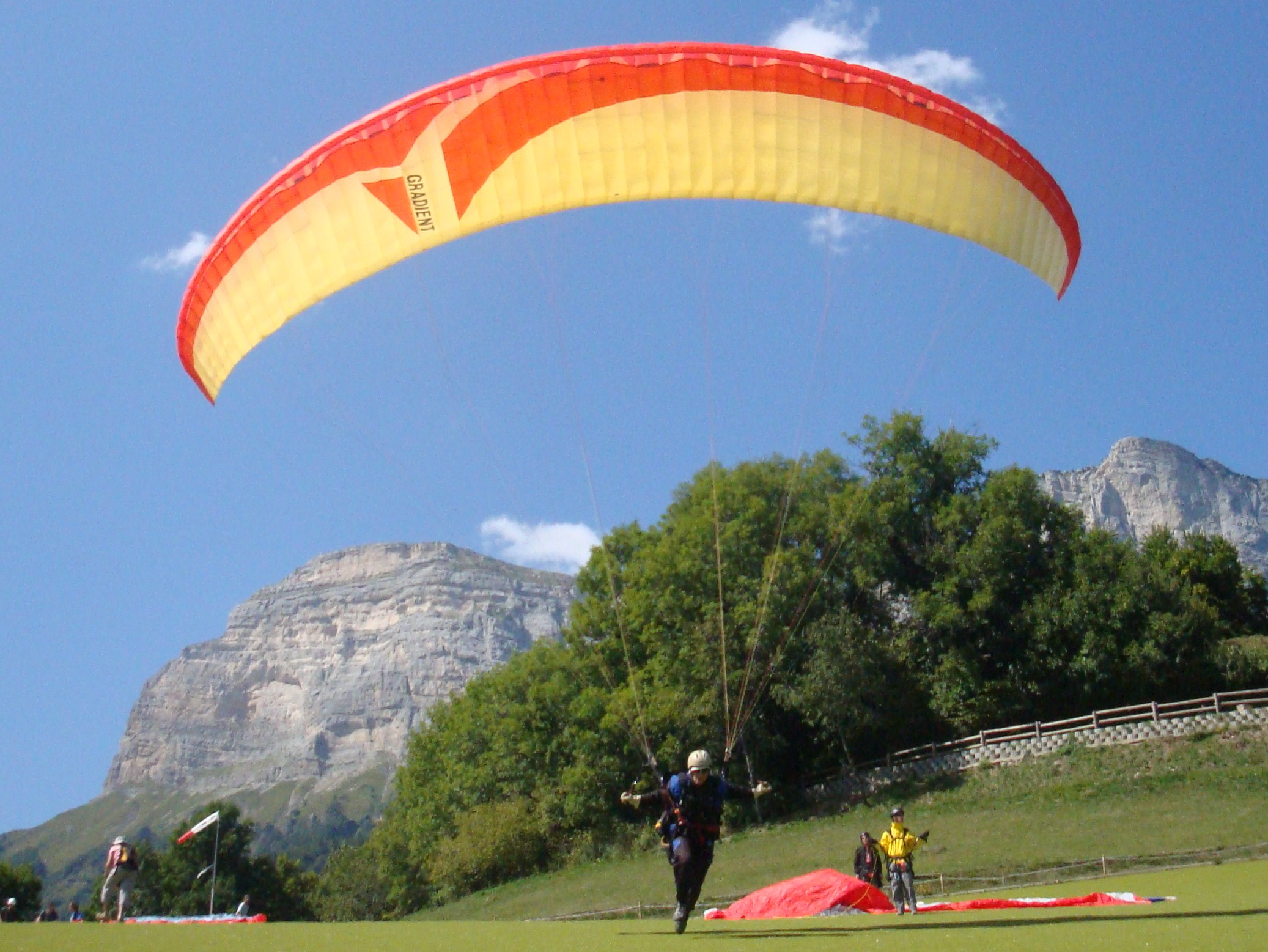 Paraglider - Gradient Aspen 2